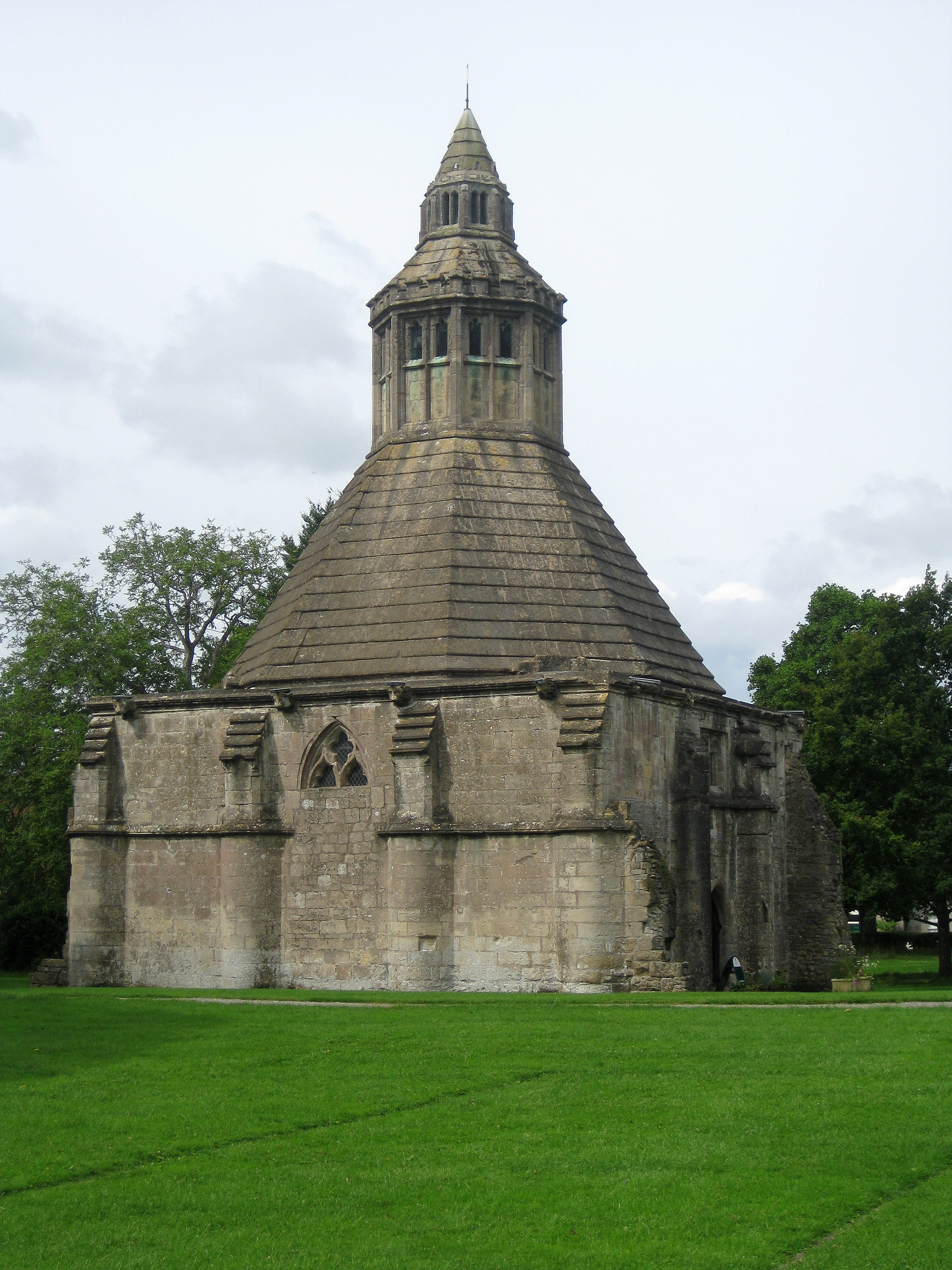 Exterior of Abbot's Kitchen at Glastonbury Abbey, Glastonbury, Somerset, England.